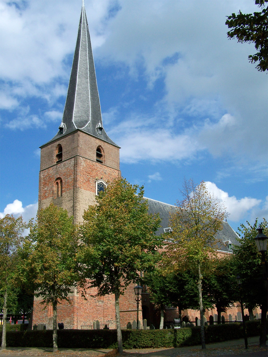 St. Maartens Church in Kollum.